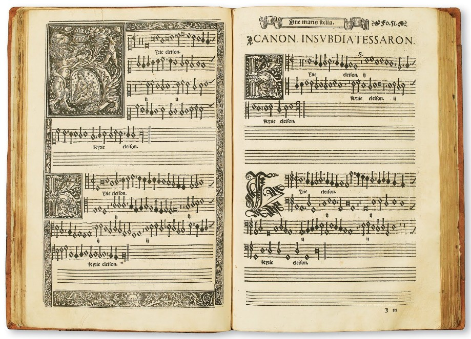 Double page of C. de Morales, "Primus liber missarum" (Lyon : Jacques Moderne, 1546).